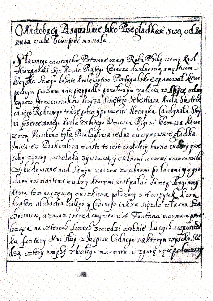 First page of "O nadobnej Paskwalinie", from the 16th or 17th century.